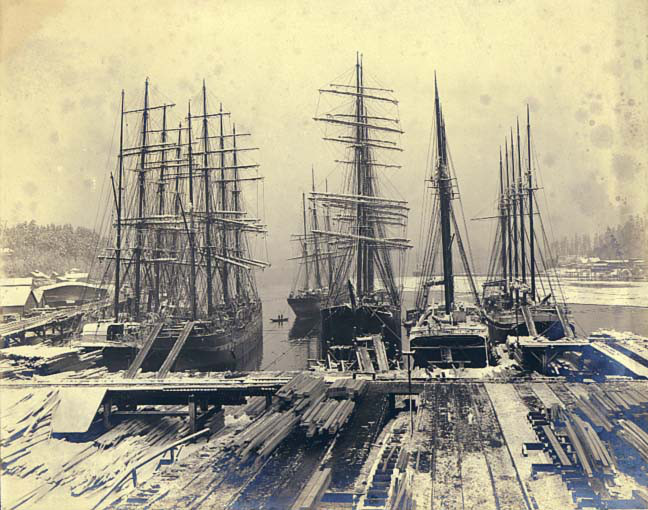 Shows wooden chutes used to load lumber from wharves onto the ship's decks; snow on ground. Sailing vessels from left to right: ENGLEHORN (bark), BRACADALE (bark), ALBANIA (bark), WANDERER (bark), LYMAN D. FOSTER (schooner), CRESENT (schooner) Subjects (LCTGM): Sailing ships--Washington (State)--Port Blakely--Port Blakely Mill Company; Lumber--Washington (State)--Port Blakely; Lumber industry--Washington (State)--Port Blakely Subjects (LCSH): Freight and freightage--Washington (State)--Port Blakely; Englehorn (Bark); Bracadale (Bark); Albania (Bark); Wanderer (Bark); Lyman D. Foster (Schooner); Cresent (Schooner); Barks (Sailing ships)--Washington (State)--Port Blakely; Schooners--Washington (State)--Port Blakely